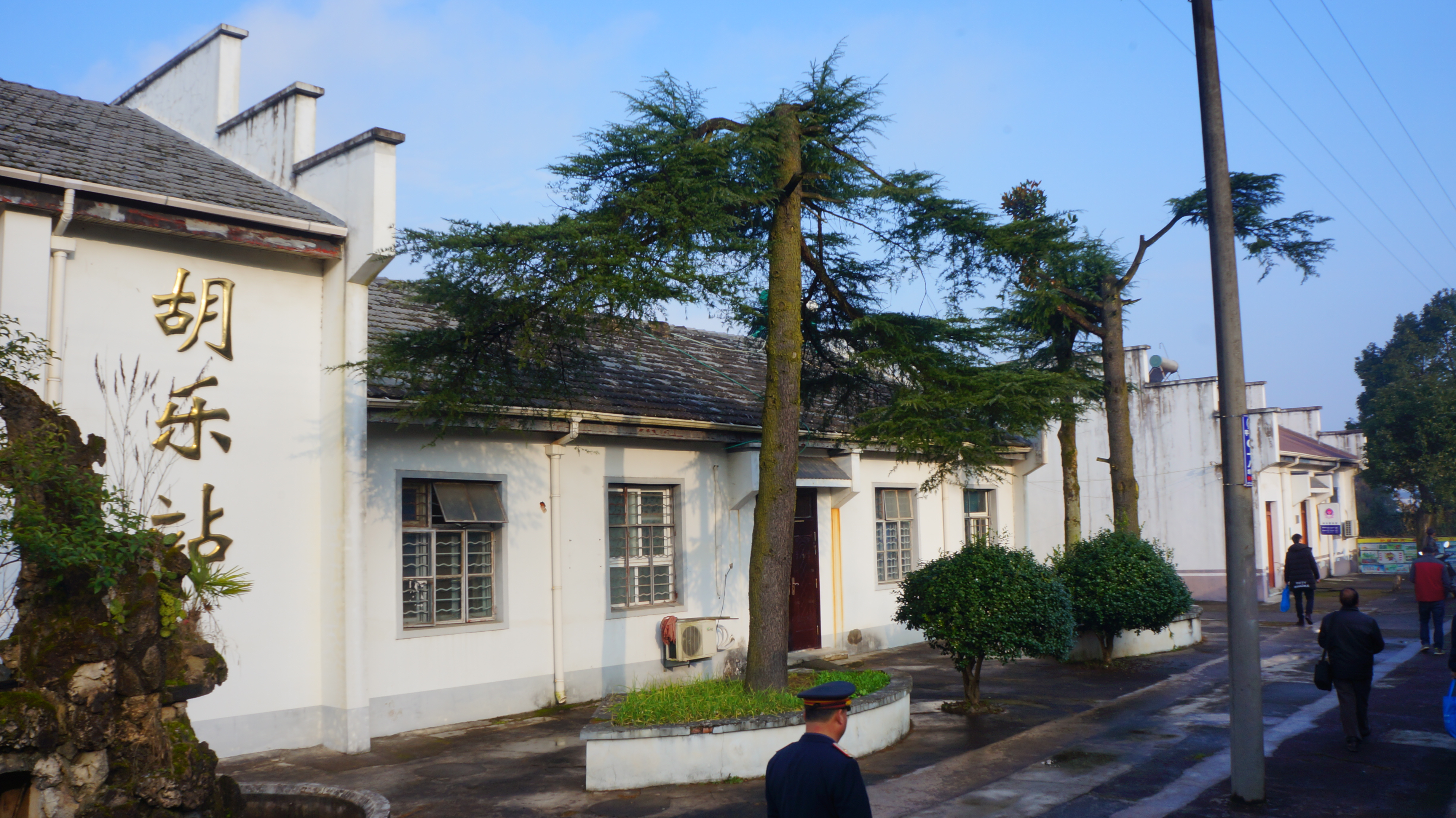 201601 Hule Railway Station